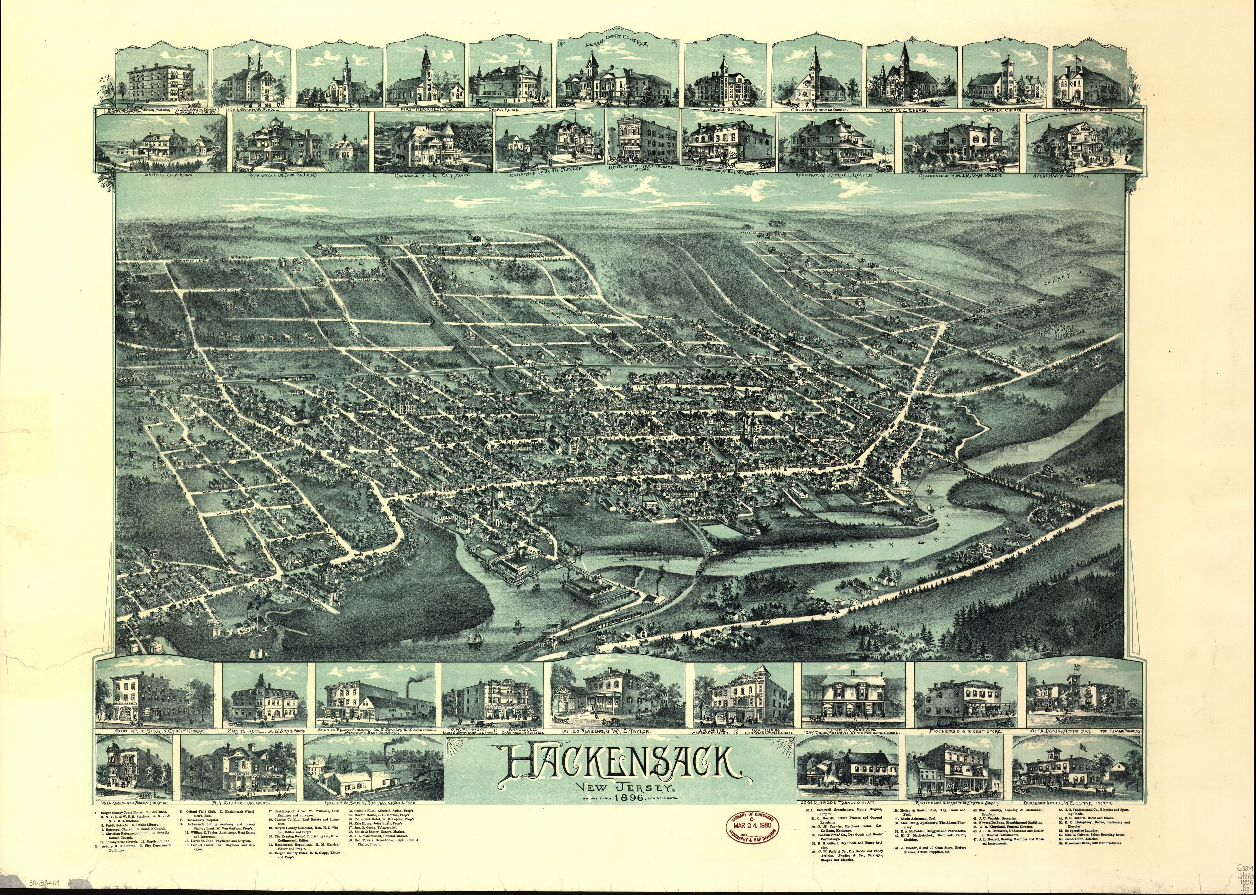 Map of Hackensack, NJ, published 1896